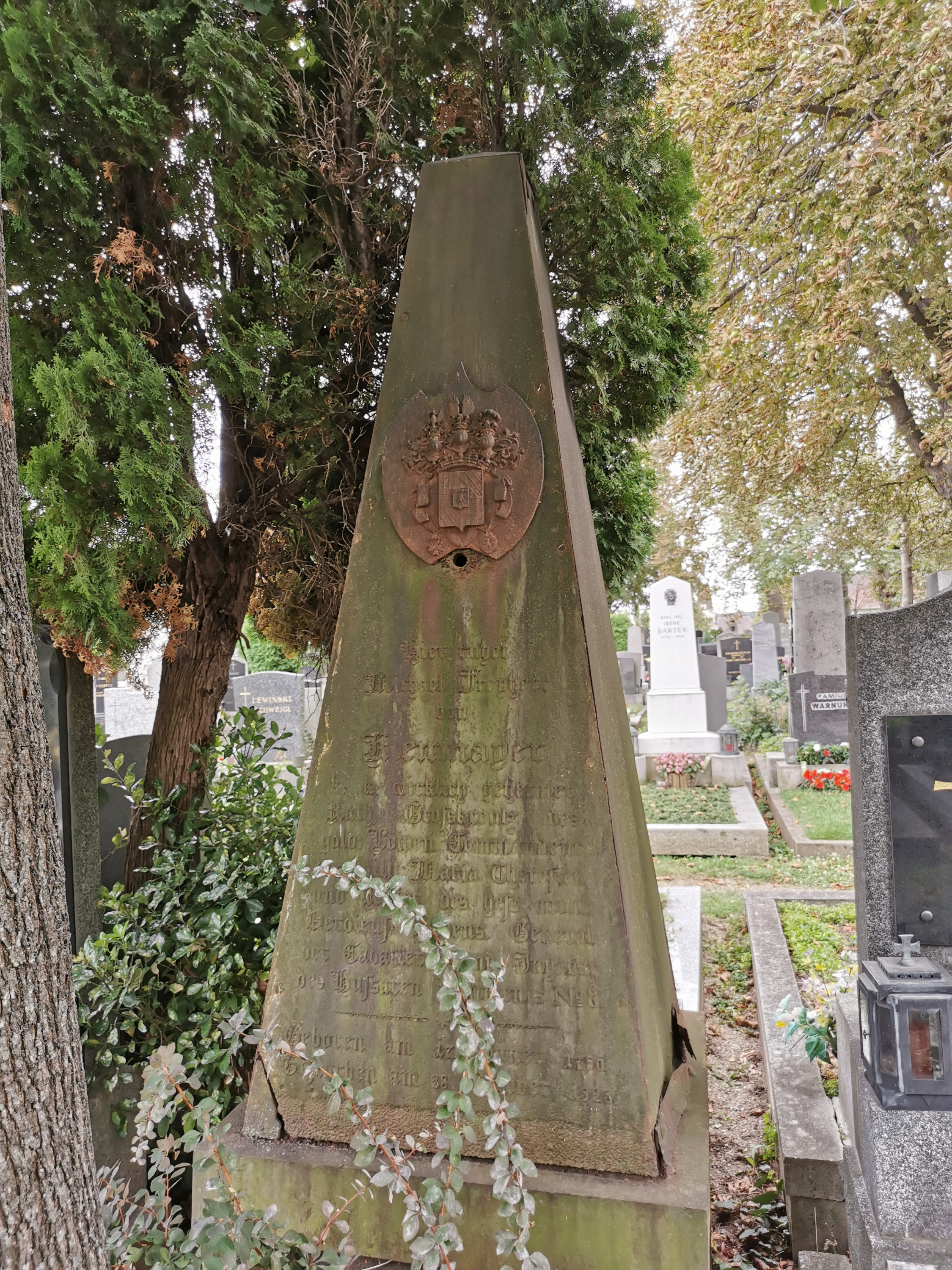 Cemetery of the Penzing parish, grave of general Michael von Kienmayer